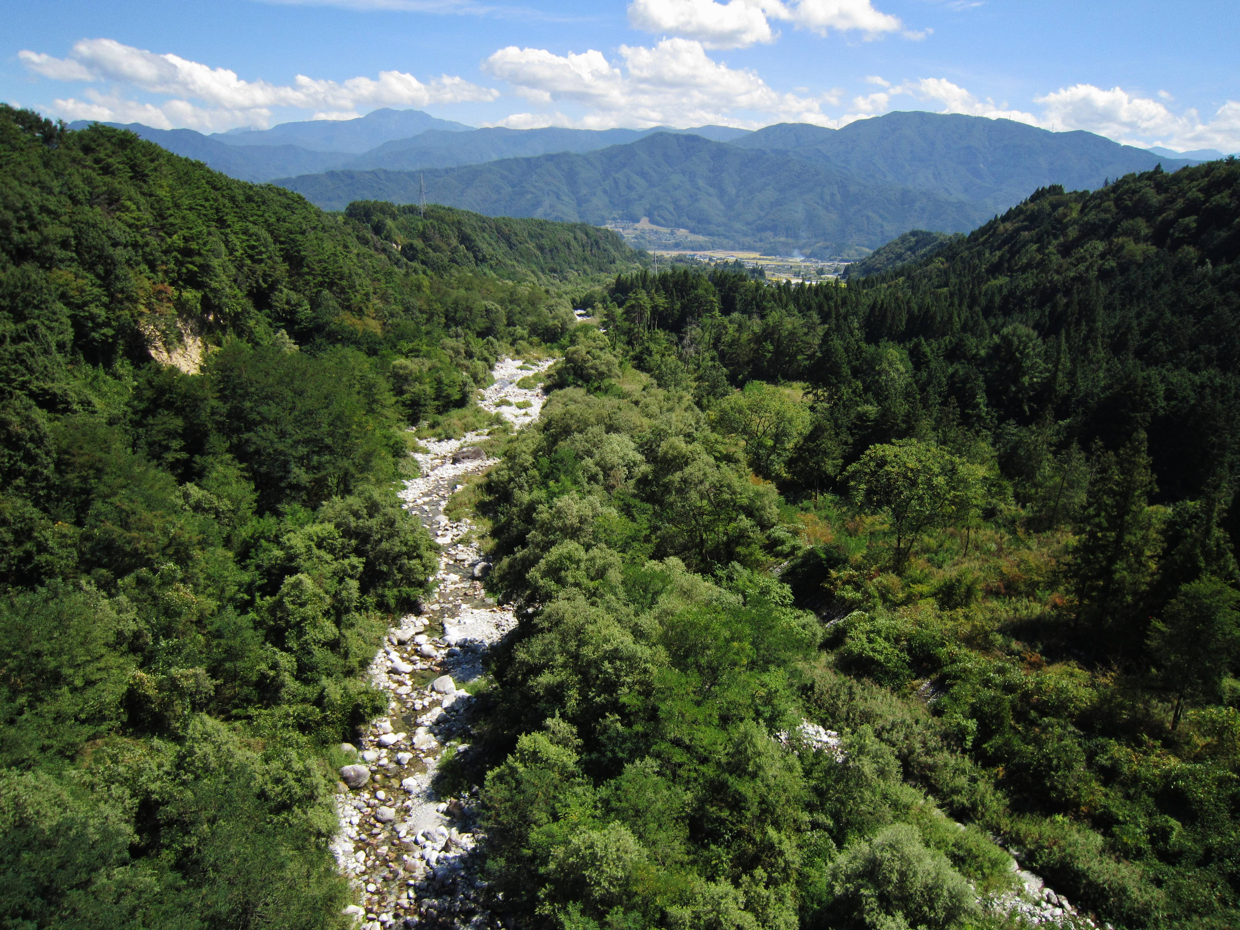 Nakatagiri River.